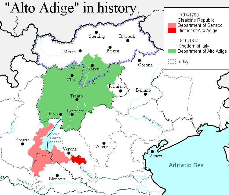 The name "Alto Adige" was used for different regions in different period - always shifting to north with little or no overlap between the enclosed areas